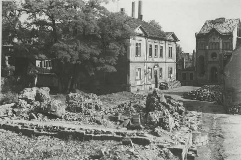 Worms Synagogue; Rubble.